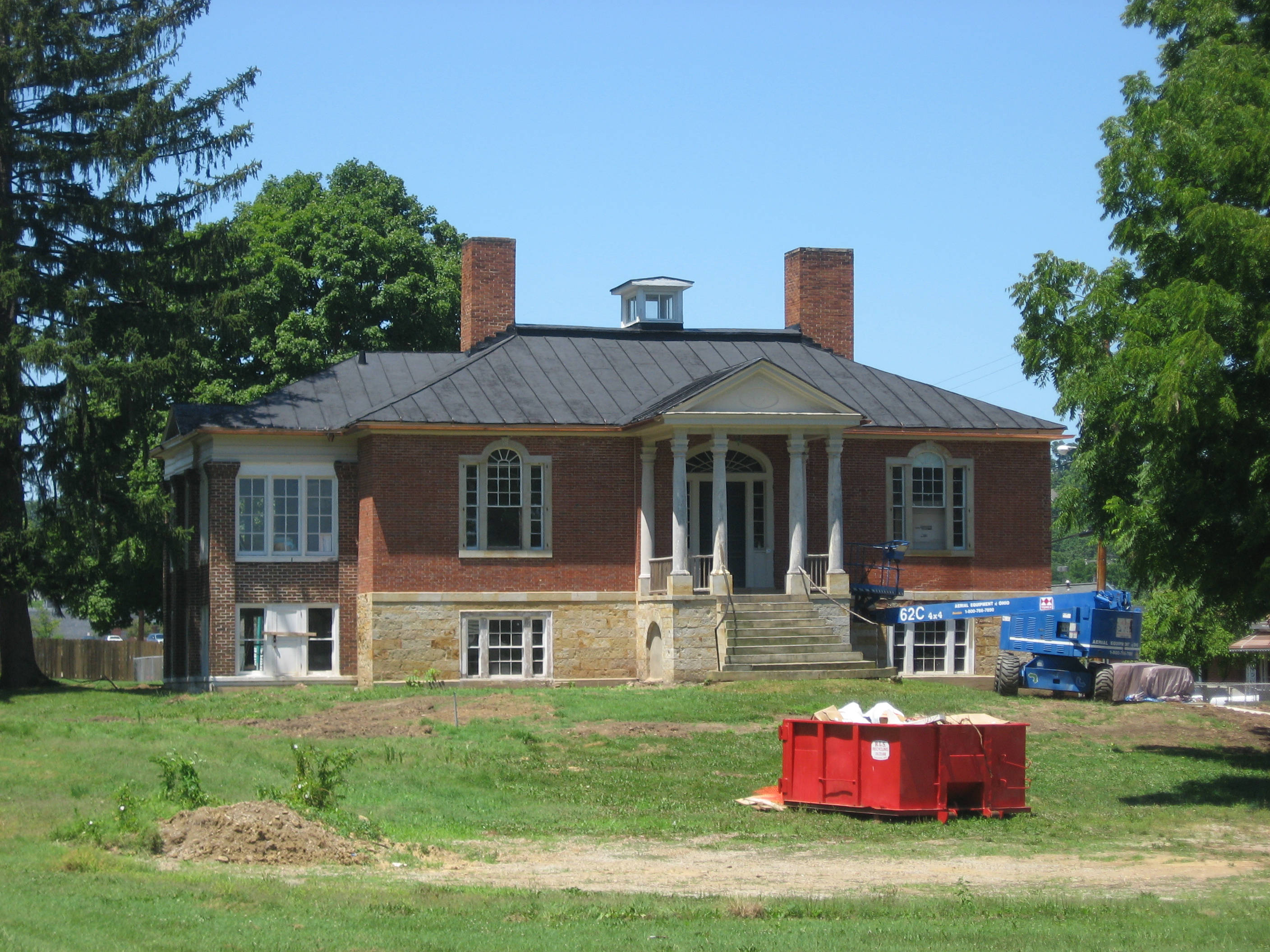 Front of the Anthony and Susan Cardinal Walke House, located at 381 Western Avenue (U.S. Route 50) on the western side of Chillicothe, Ohio, United States. Built in 1812, it is listed on the National Register of Historic Places.